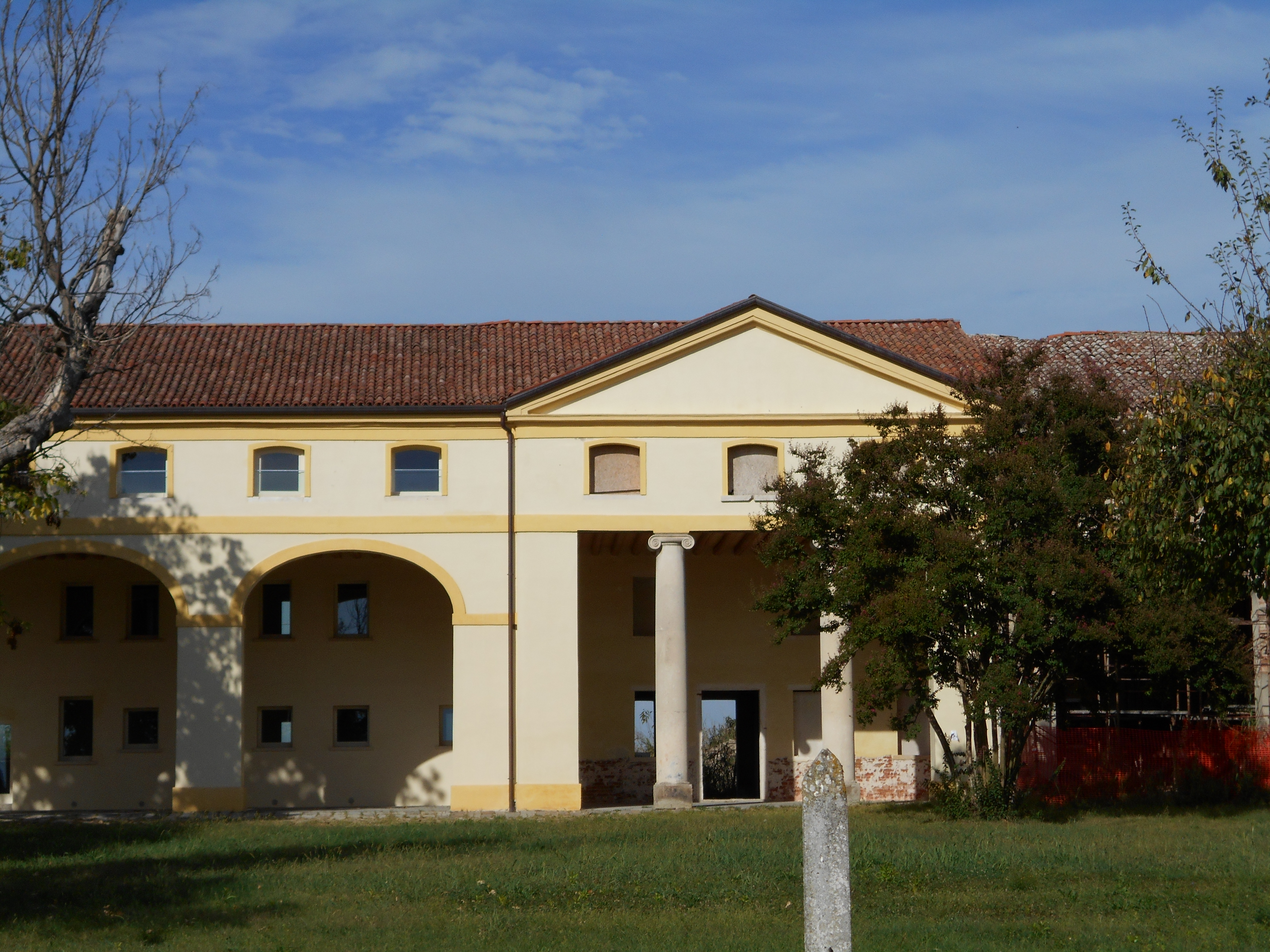 Villa Centanini, Pozzonovo